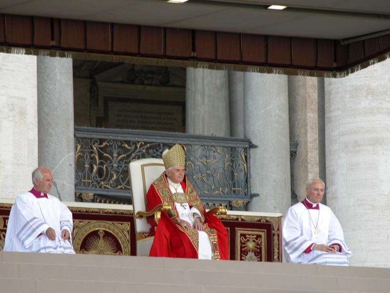 Creative Commons image of Pope Benedict XVI at mass. From: Taken by blues_brother